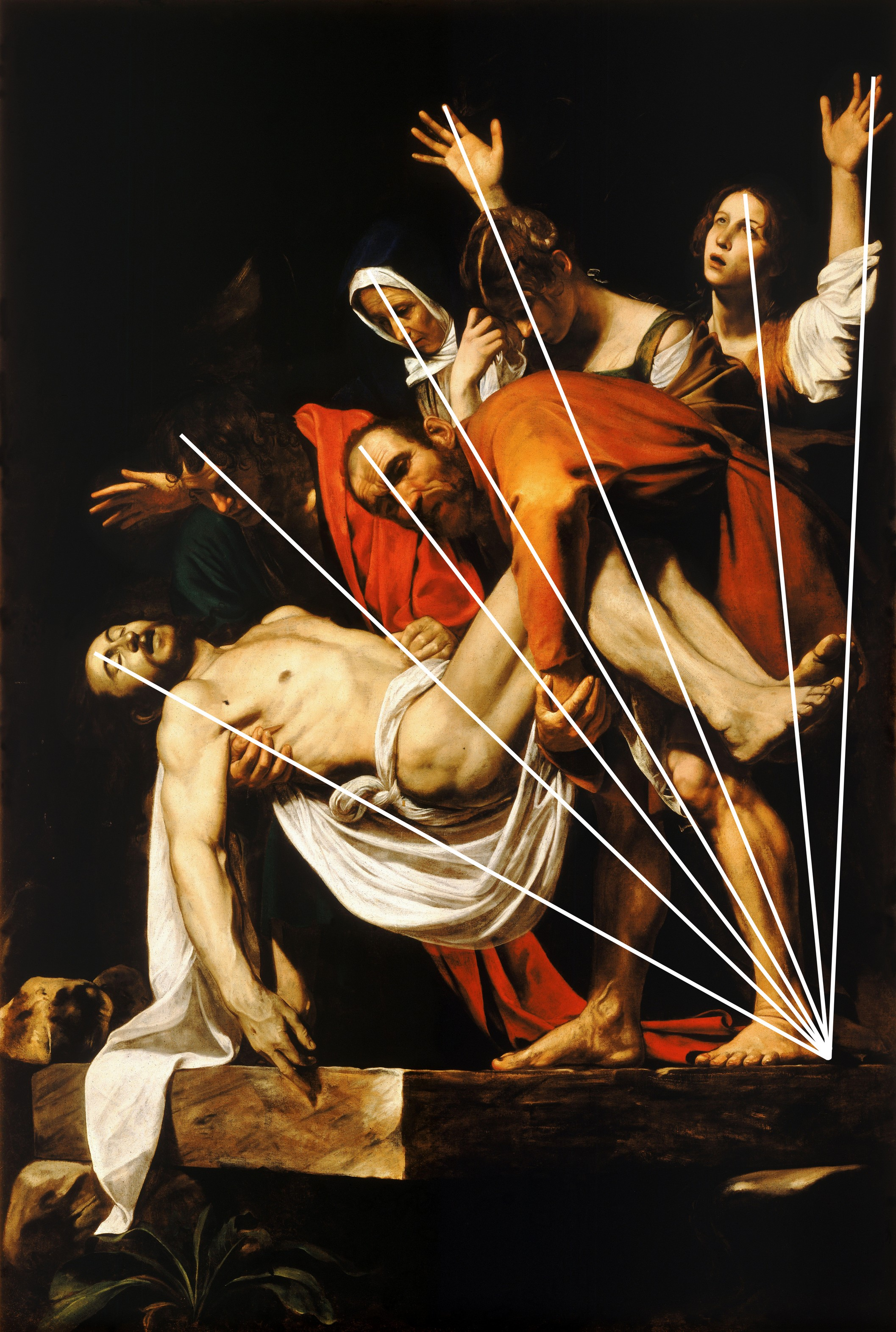 Caravaggio's painting, with white lines added to enhance the composition. Source : Carla Mariani, La technique picturale: les "ombres" de Caravage, p.308. In Claudio Strinati (dir.), Caravage, Éditions Place des Victoires, 2015, 360 p. (ISBN 978-2-8099-1314-9).